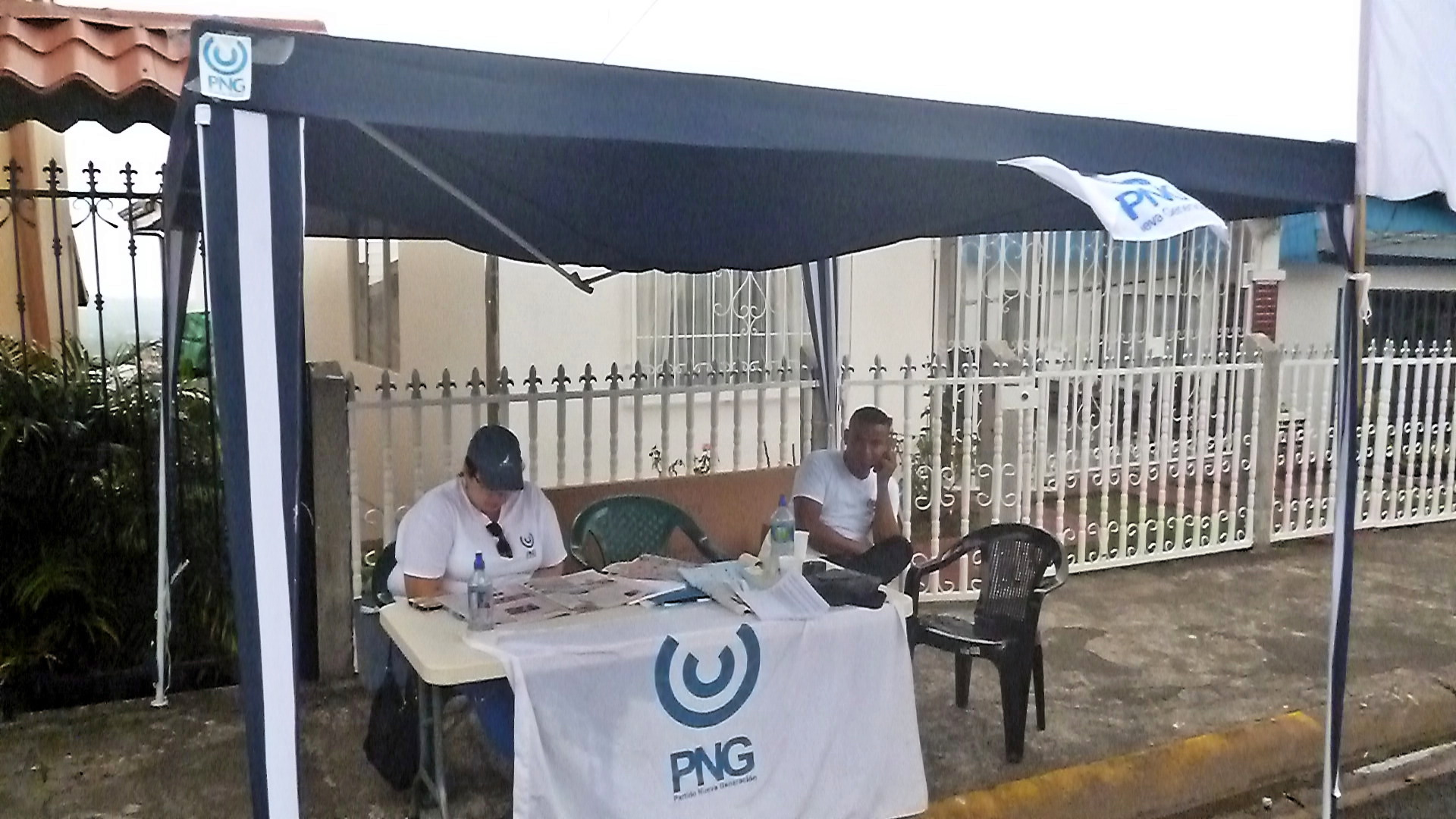 Nueva Generación spot at Quesada during Costa Rican general election, 2014.